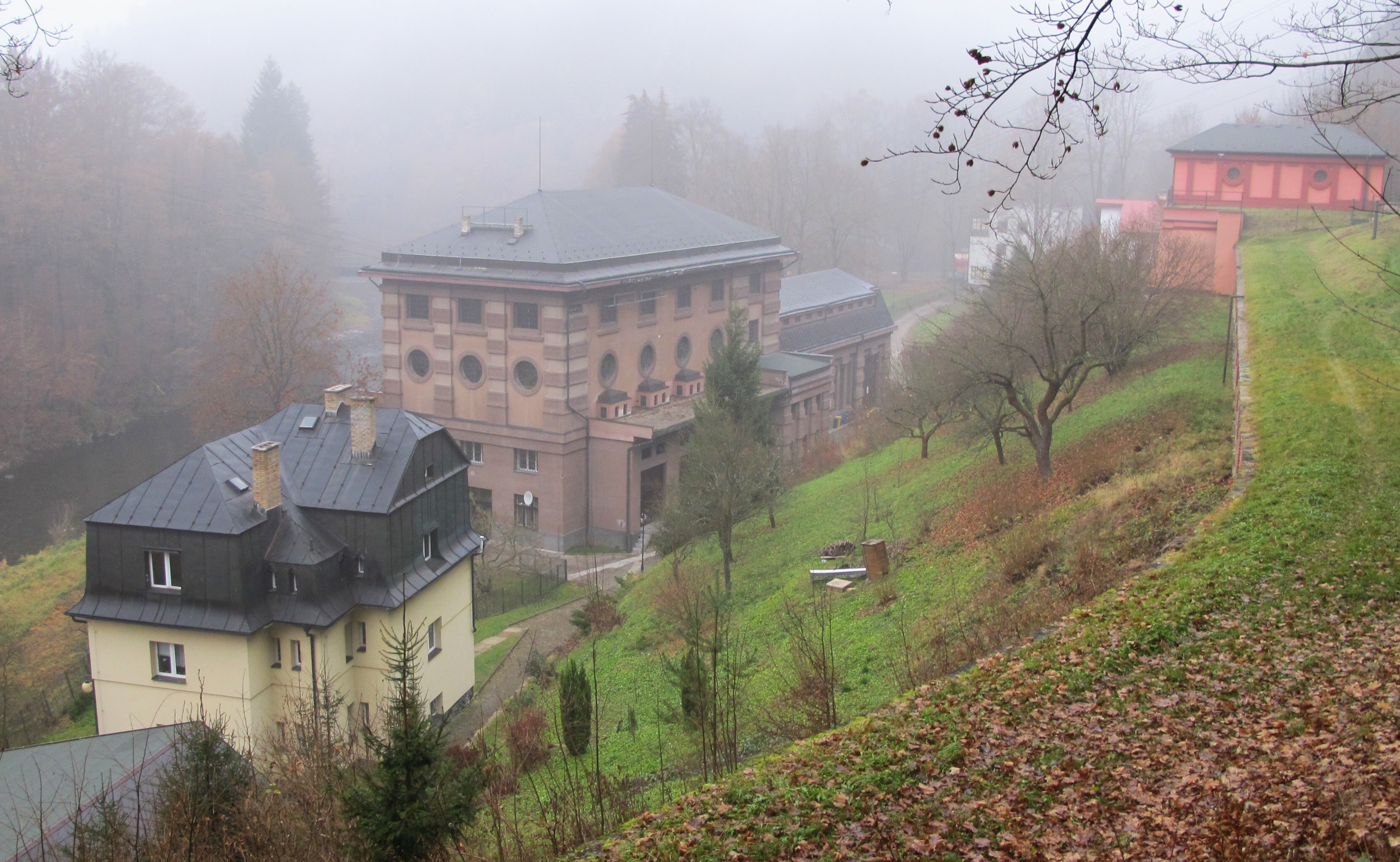 Small hydropower station in Spálov, Semily District in Czech Republic